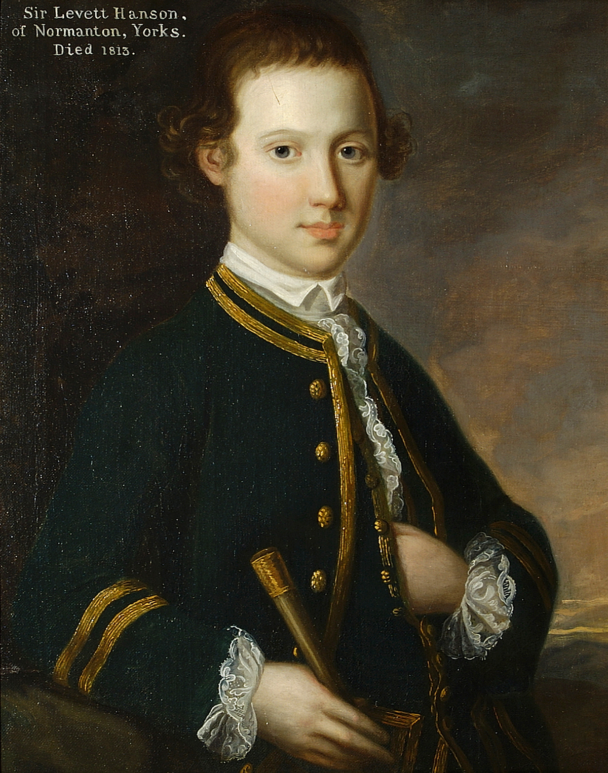 Portrait of 'Sir' Levett Hanson, courtier, traveler, writer and authority on knighthood